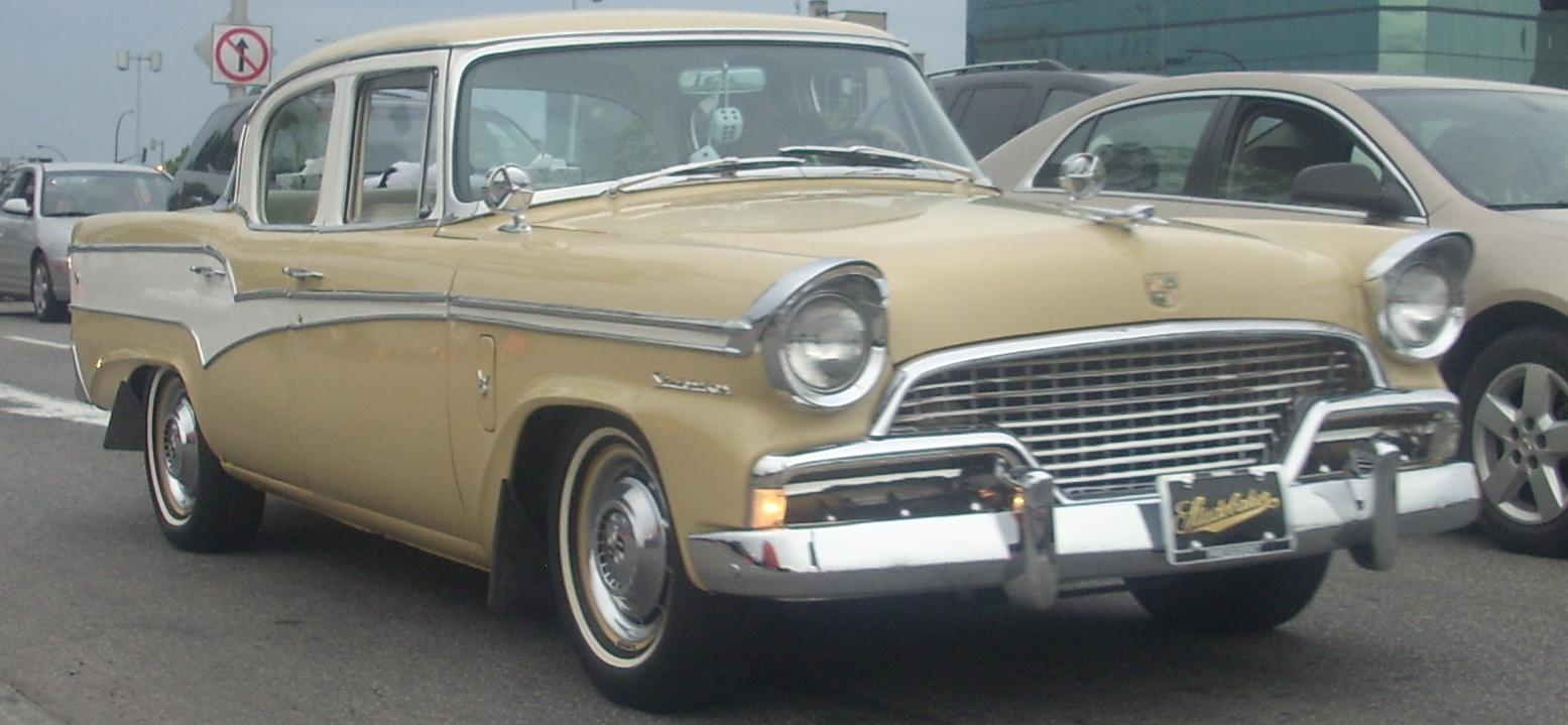 1956 Studebaker President 4-Door Sedan photographed in Montreal, Quebec, Canada.